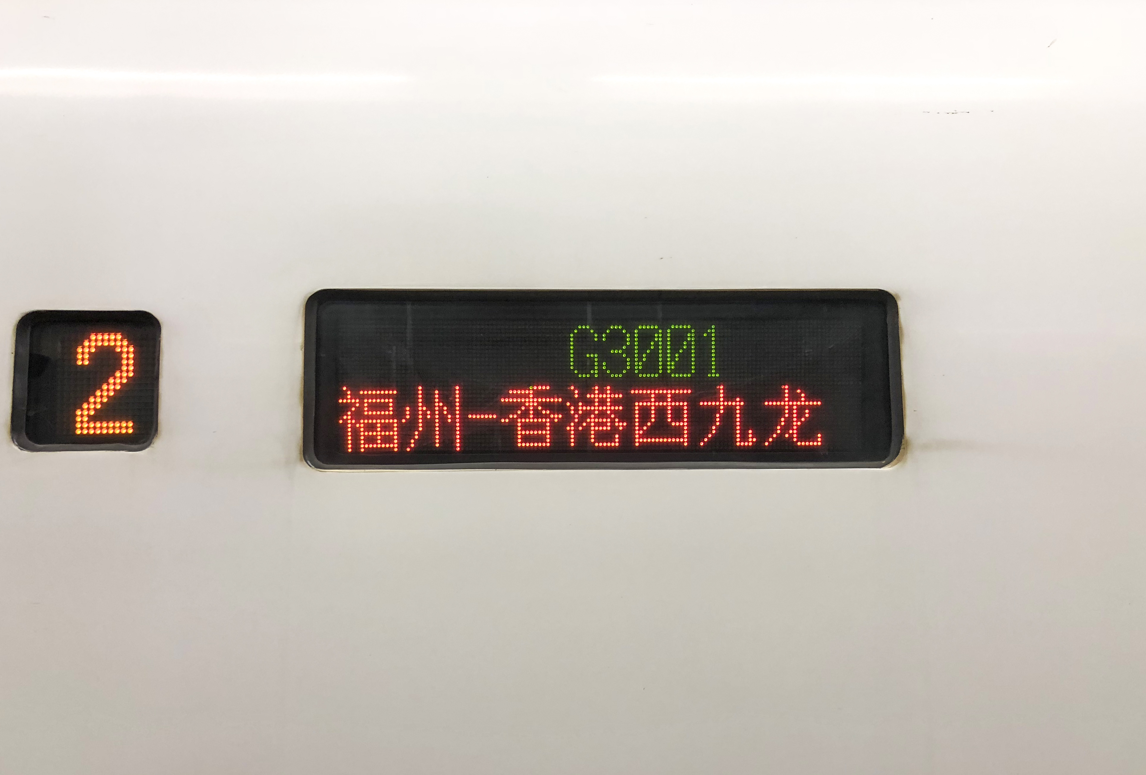 The (in)famous "Fake G", run by CRH2A.